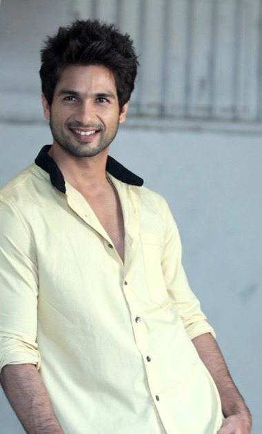 Shahid promotes 'Teri Meri Kahaani'